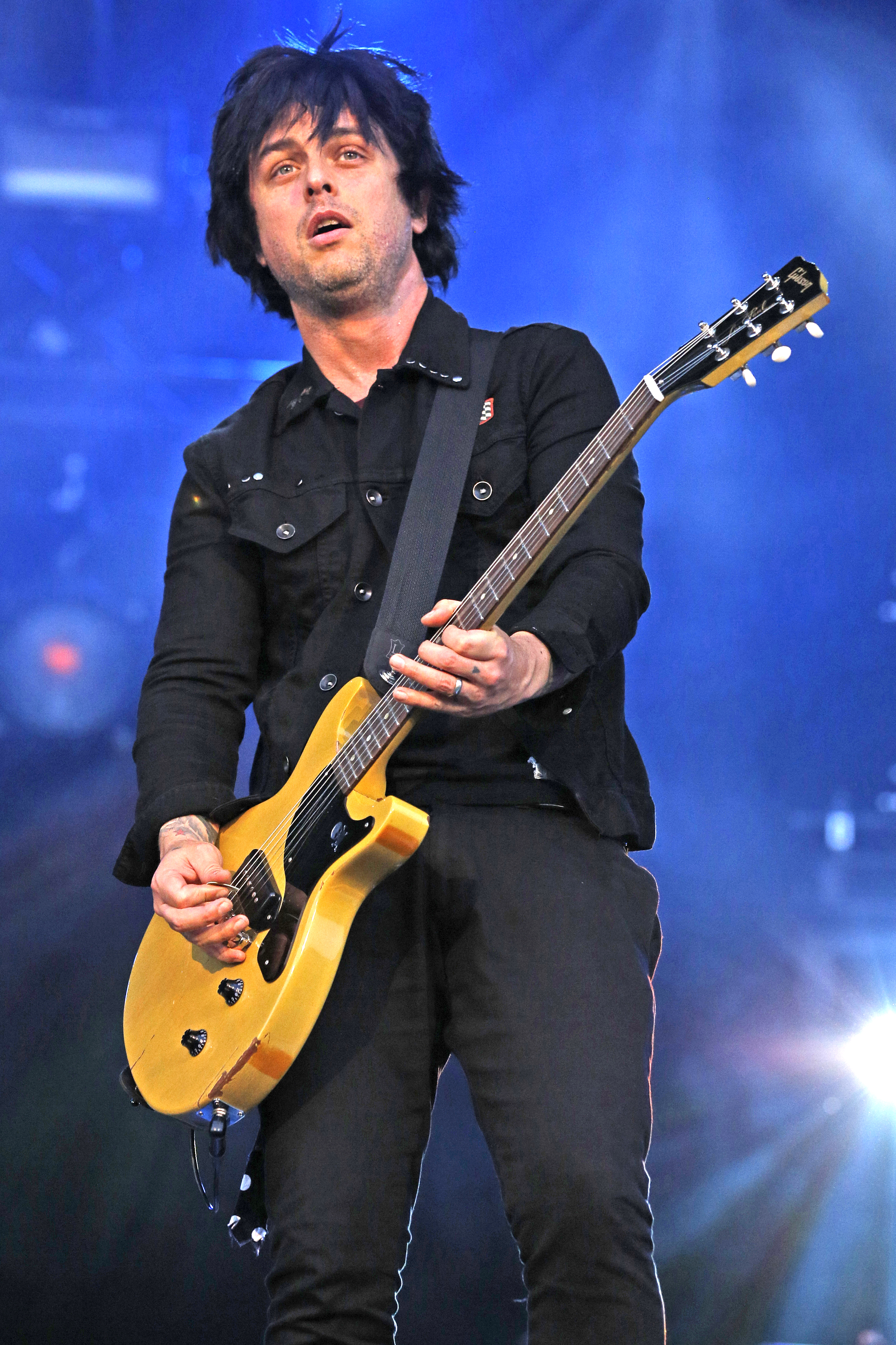 Billie Joe Armstrong, singer and guitarist of Green Day, stands on the Center Stage of Rock im Park-Festival 2013.